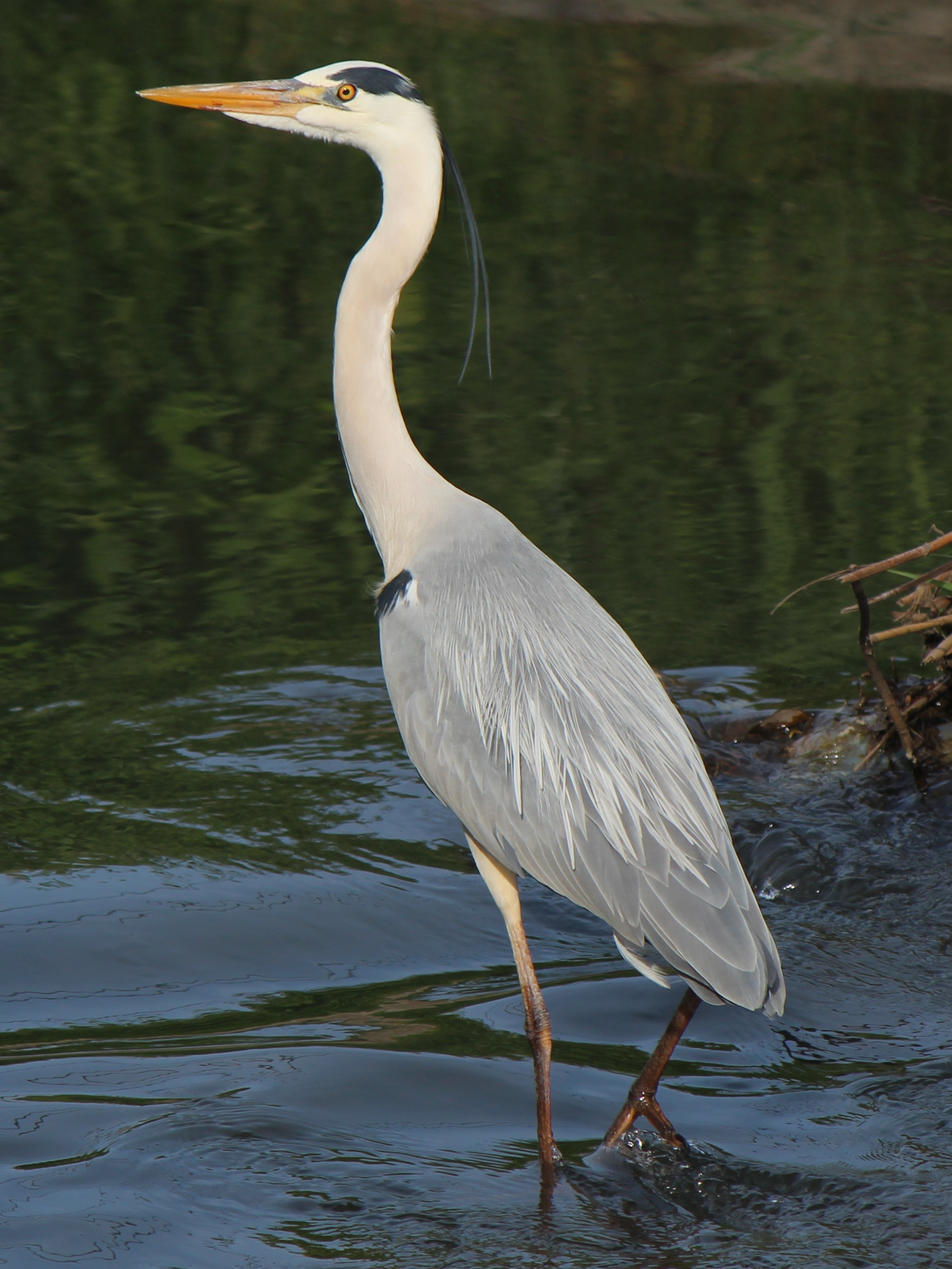 Ardea cinerea jouyi (Grey Heron) walking in river, in Japan.